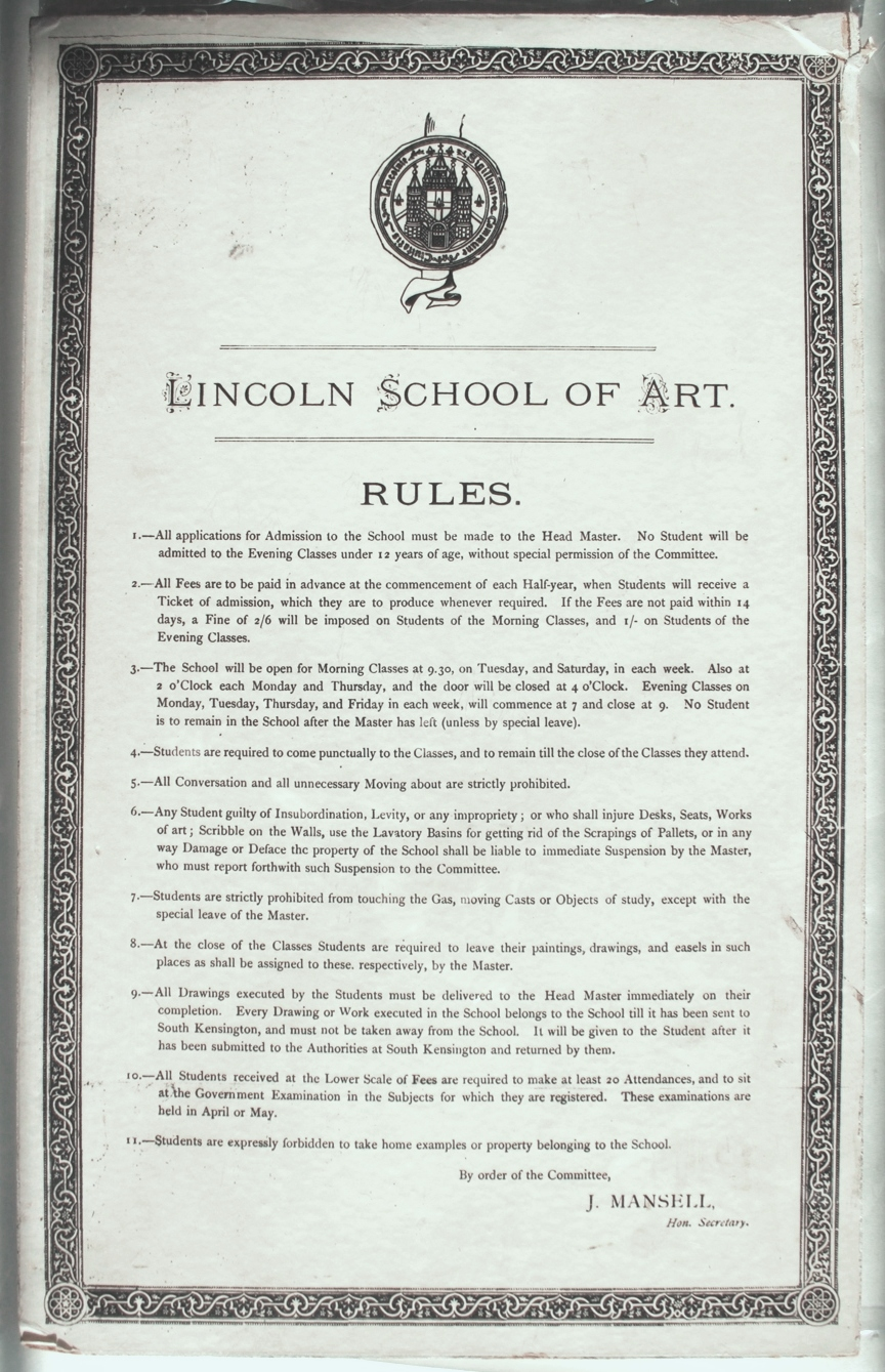 Notice board featuring the rules of the Lincoln School of Art